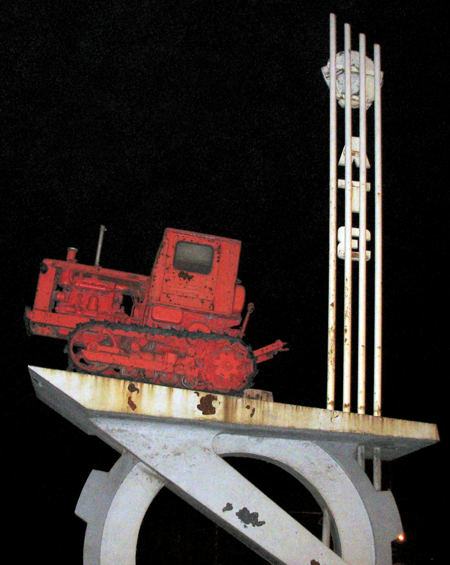 Tractor monument in Lipetsk.